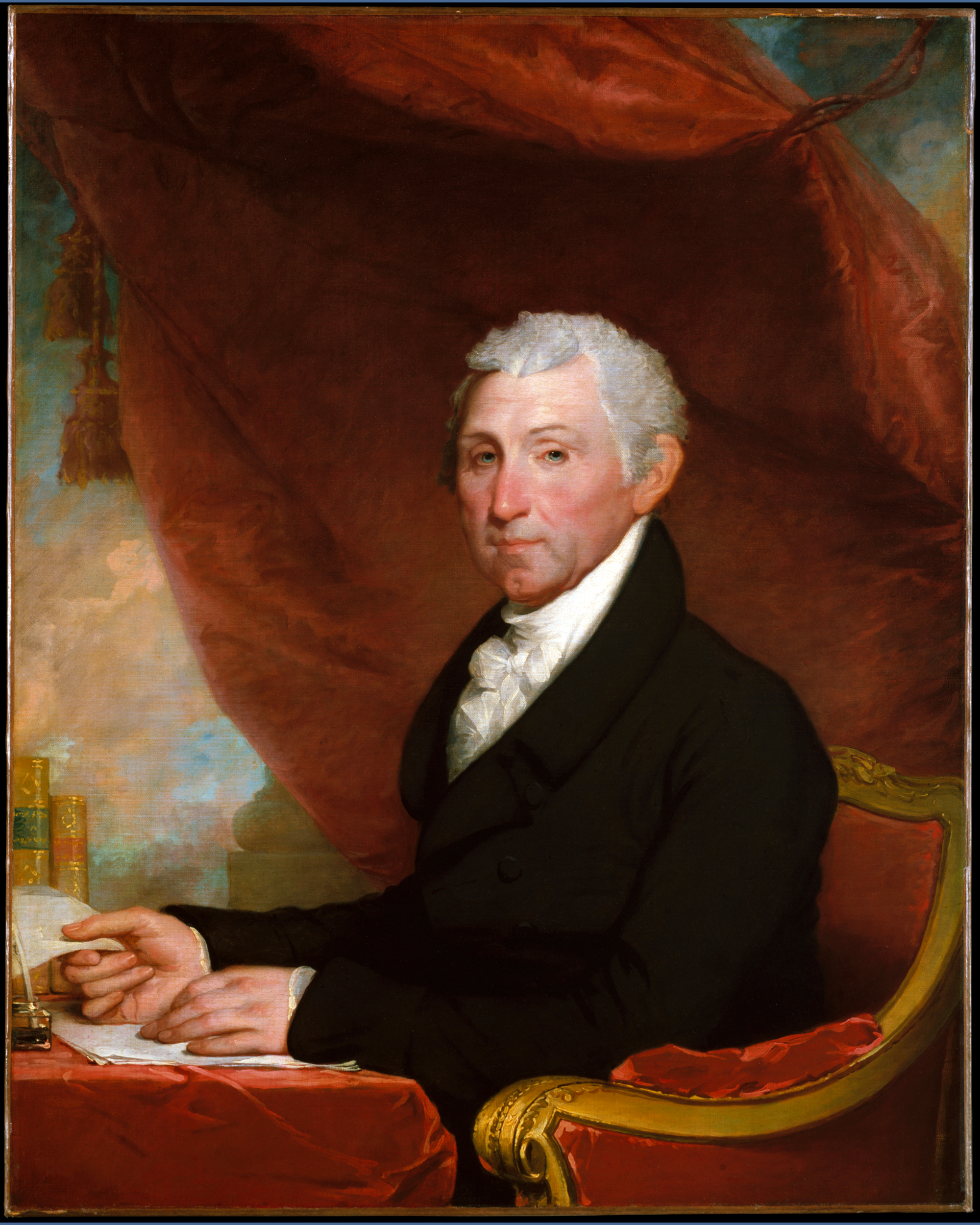 Painter - Gilbert Stuart (American, 1755–1828) Oil on canvas; 40 1/4 x 32 in. (102.2 x 81.3 cm) Bequest of Seth Low, 1916 (29.89) James Monroe, ca. 1820–22. "This portrait originally belonged to a set of half-length portraits of the first five U.S. presidents that was commissioned from Stuart by John Doggett, a Boston framemaker and art dealer." (Metropolitan Museum of Art, NY. The image was transferred from en.wiki, see Image:GSJamesMonroe.jpg under the PD-old-100 license tag. Wars 22:33, 16 March 2006 (UTC)